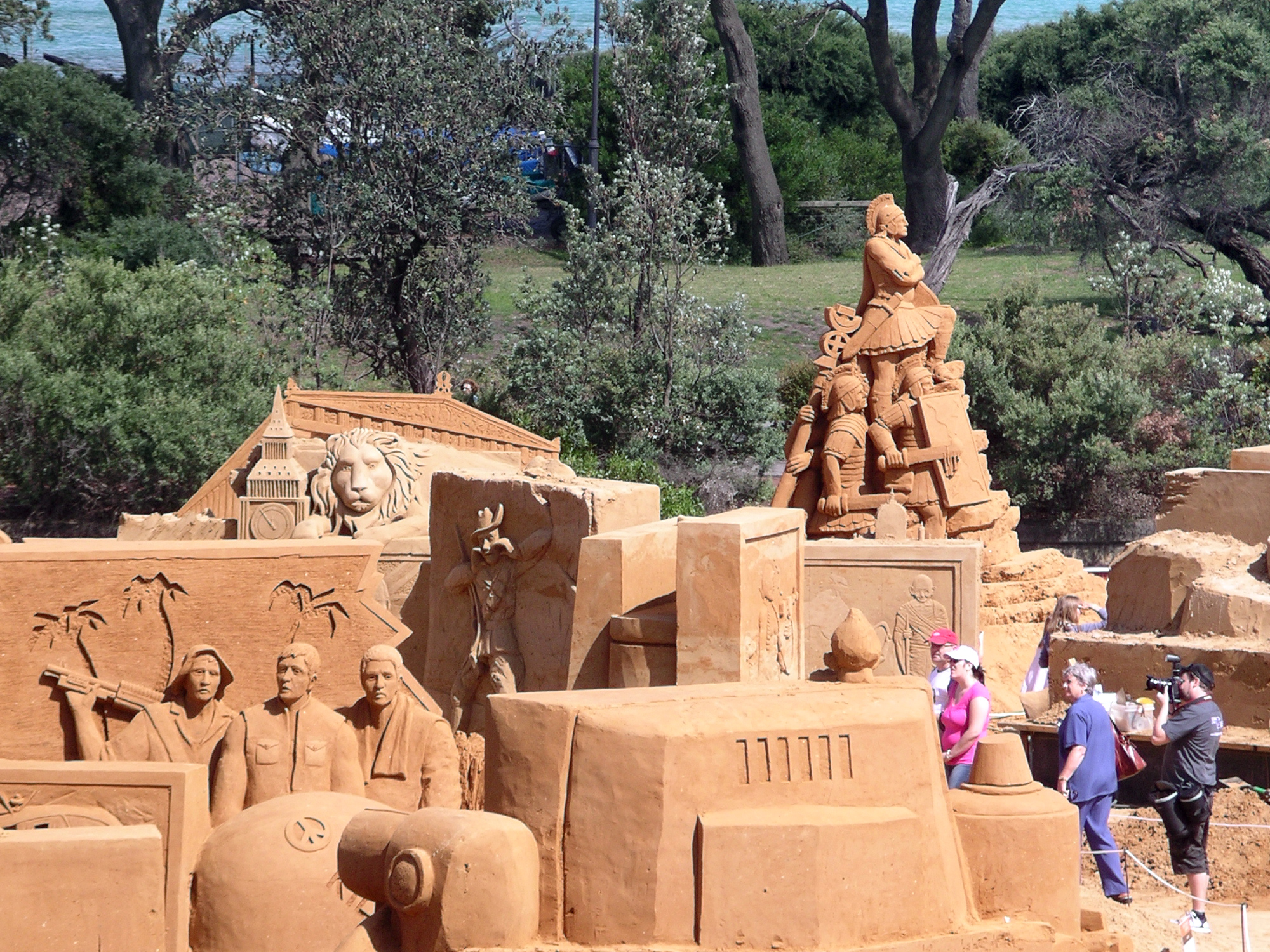 Sand sculpting competition on the foreshore in Frankston, Victoria, Australia on 26-Dec-2009.